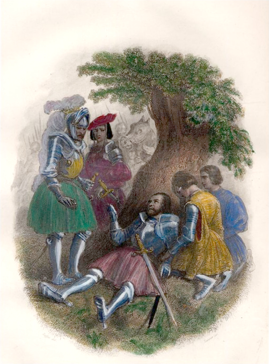 The Death of Pierre Terrail, seigneur de Bayard (1473 – 1524), French soldier.